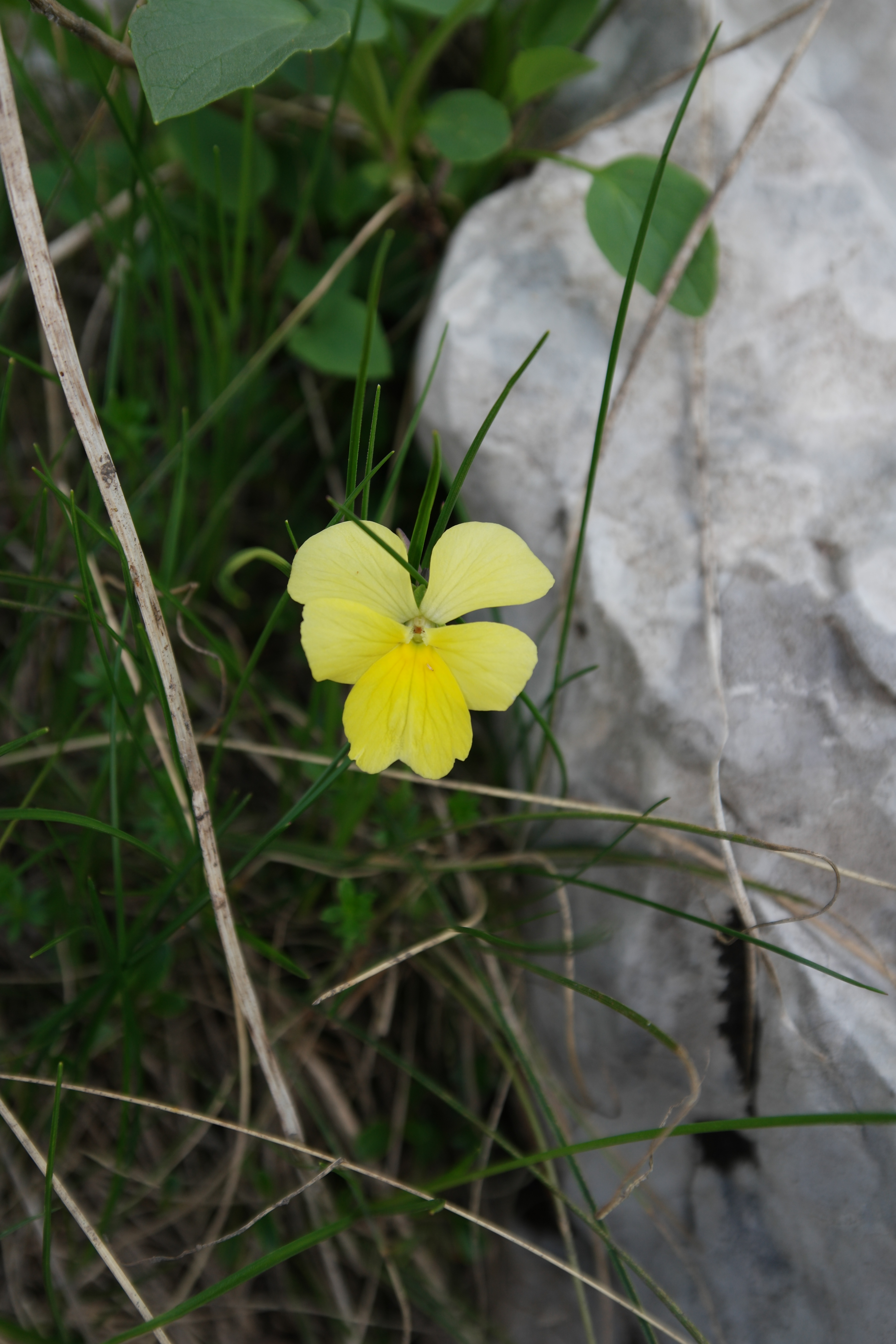 Viola calcarata ssp. zoysii leg P.Cikovac Opuvani do-Jastreibca ridge Mt Orjen -Montenegro